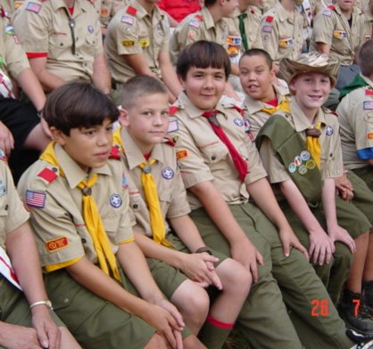 Photo taken July 26, 2002 of American Boy Scouts sitting around a campfire ring at a week long summer camp.